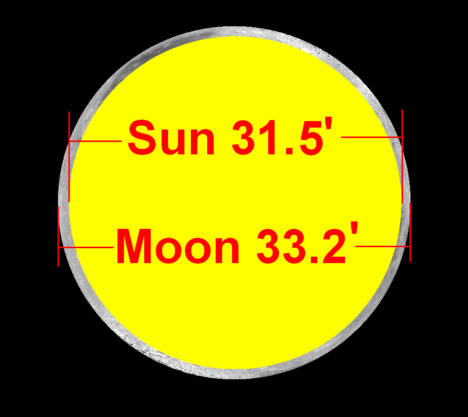 Solar eclipse of July 11, 2010 - simulation of relative diameters